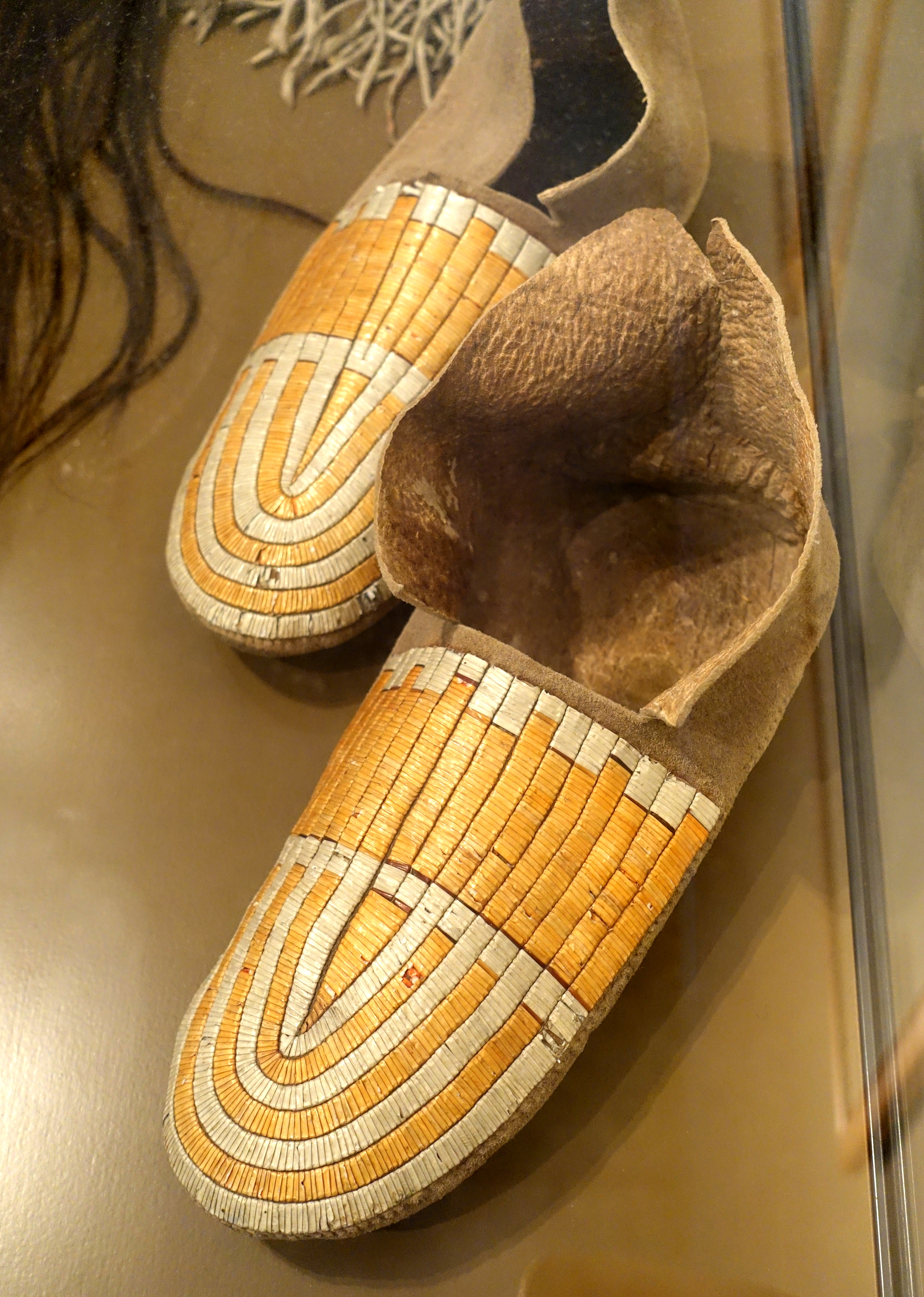 Exhibit in the Ethnological Museum, Berlin, Germany.